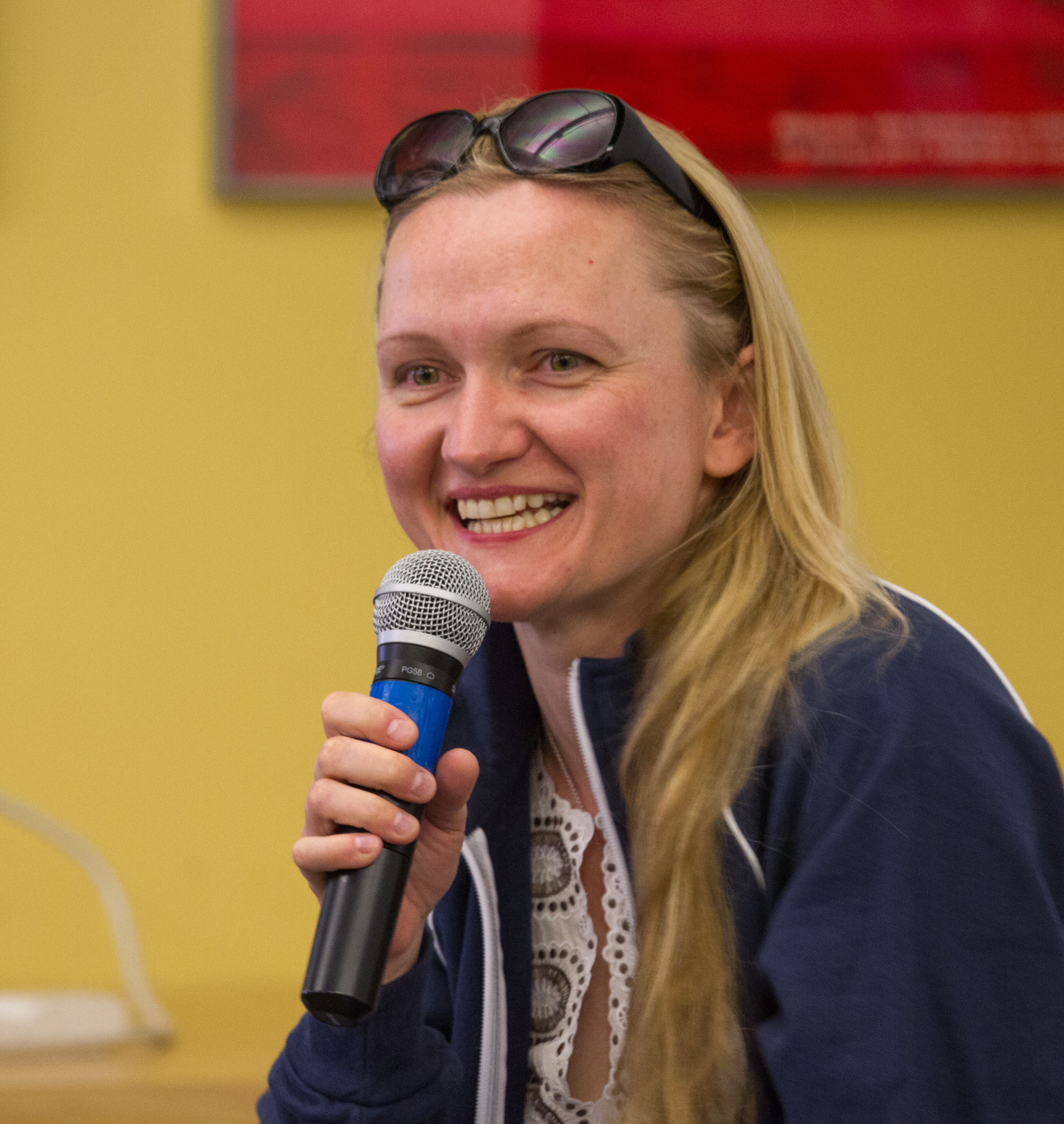 Lila Tretikov addressing Wikimedia Foundation staff for the first time after her announcement as the new ED during the May 1st metrics meeting.